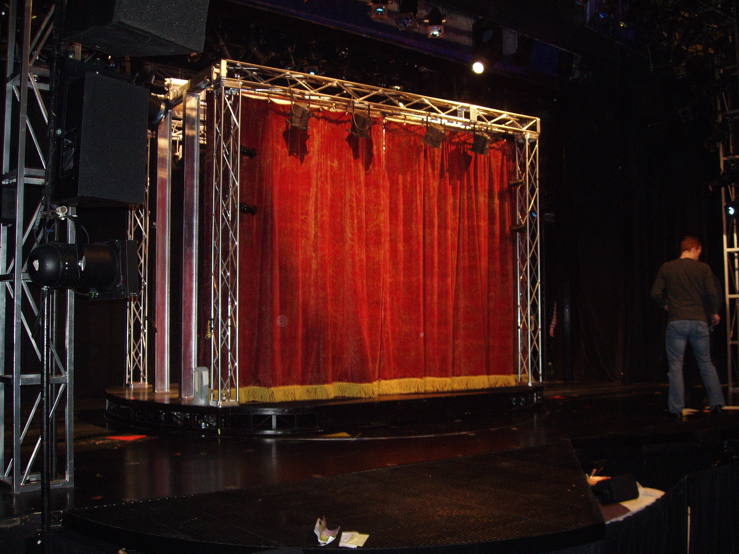 Small stage on a turntable. (original: Small stage on a turntable. Taken by User:Lekogm November 27th, 2004)